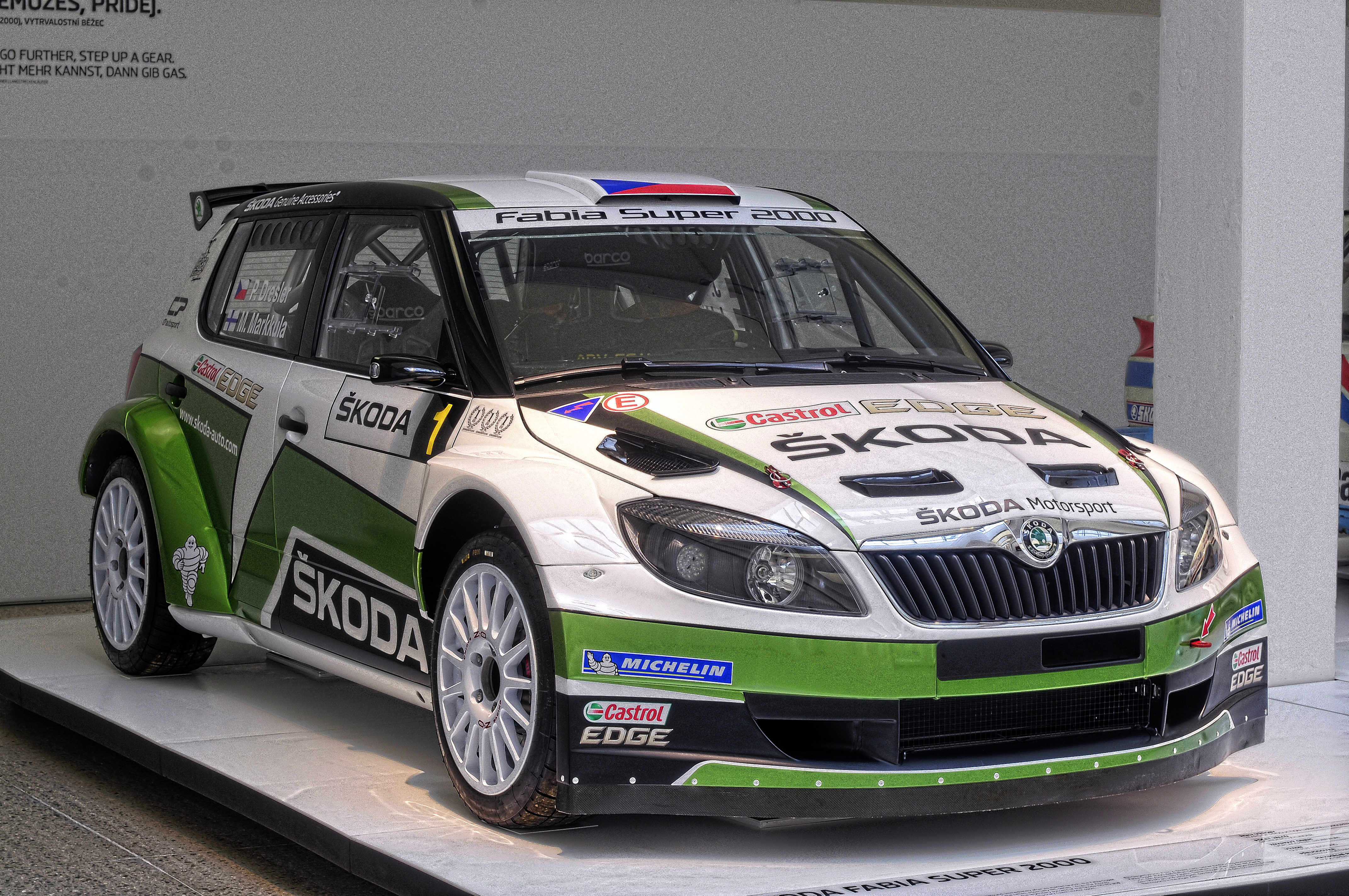 Škoda Fabia S2000 of Škoda Motorsport